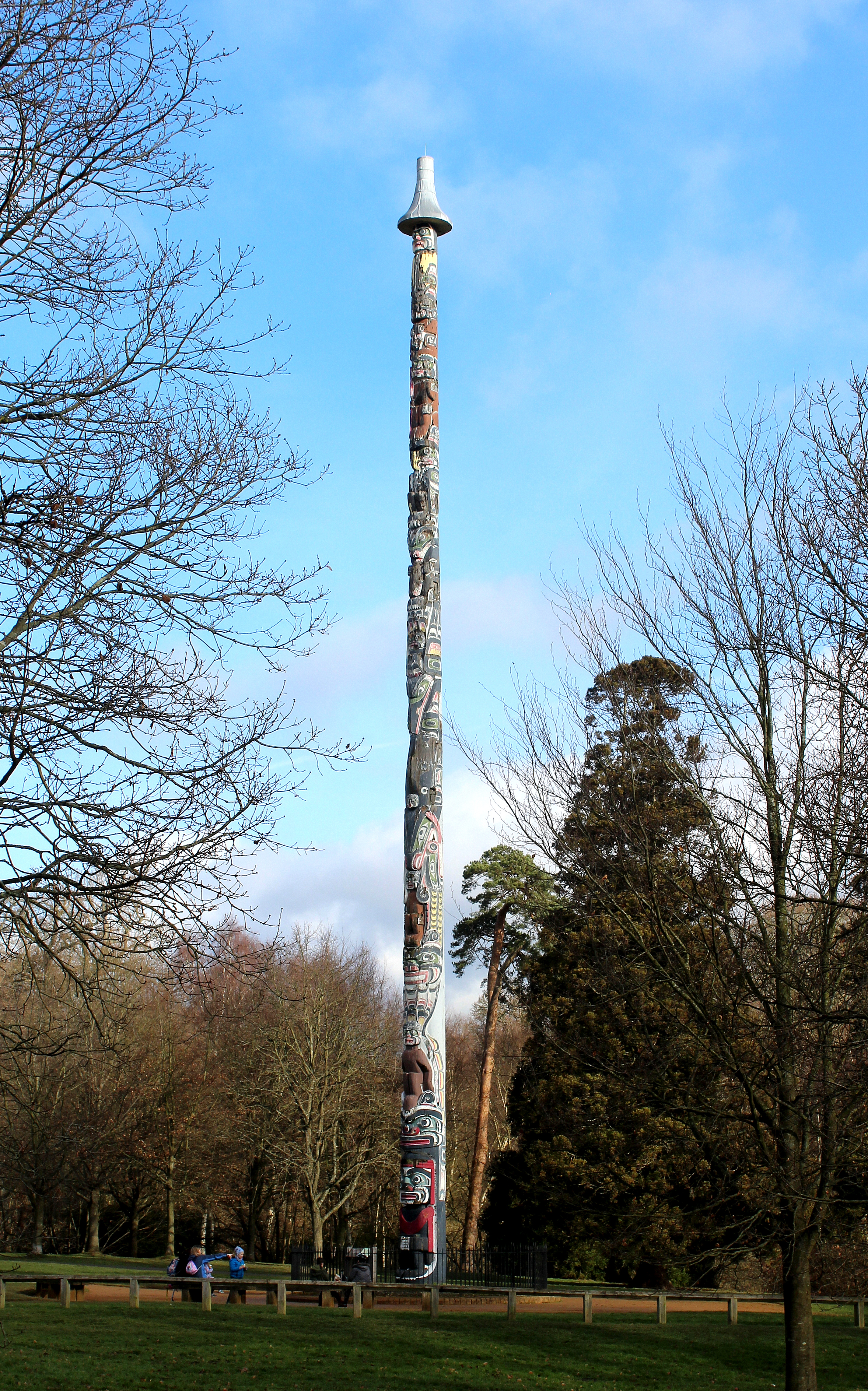 A 30 metre totem pole, carved from a single 600 year-old Western red cedar, that was erected in 1958 close to the Virgina Water Lake, Part of the Windsor Great Park, England) to mark the centenary of the establishment of British Columbia as a Crown colony. The figures, from top to bottom are: Man with a large hat Beaver Old man Thunderbird Sea otter Raven Whale Sisiutl - a mythical creature Halibut man Cedar man